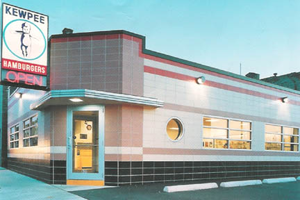 Exterior of Kewpee Sandwich Shop, Racine, WI